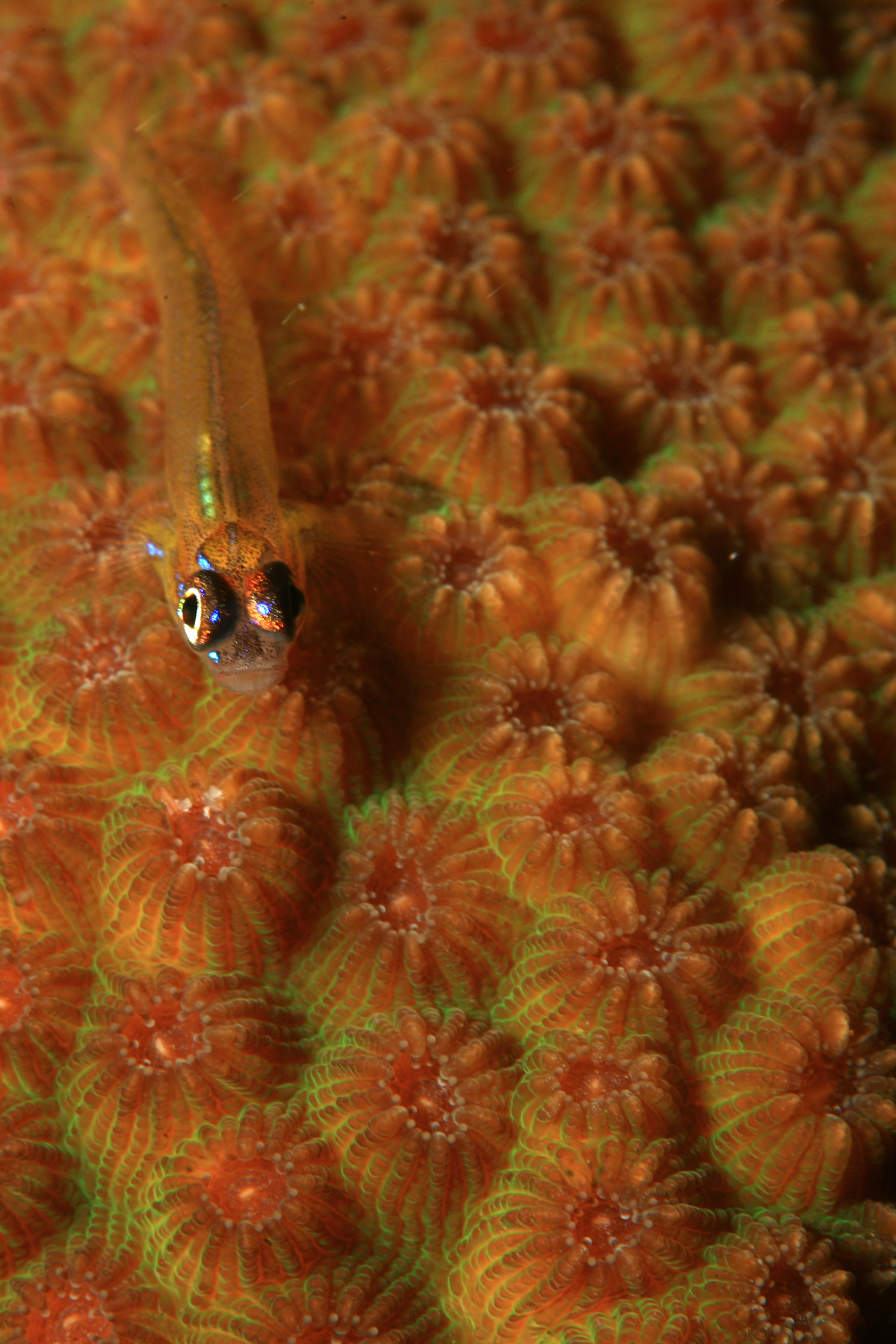 A Peppermint Goby (Coryphopterus lipernes) makes its home on a healthy patch of Boulder Star Coral (Montastraea annularis). Taken at Kleine Knip Reef, Curaçao, Netherlands Antilles